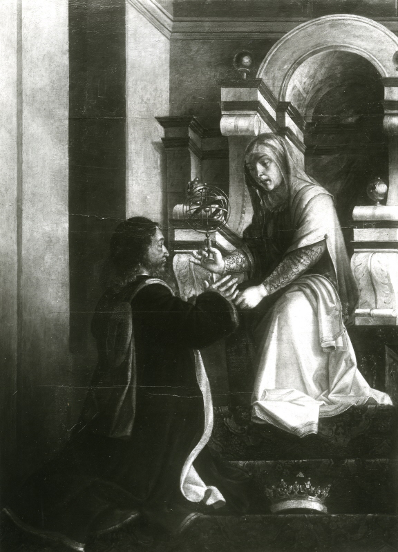 'The Astronomy, by Melozzo da Forlì, ca. 1474-1475. The painting was destroyed or disappeared in Berlin in May 1945, in the Friedrichshain flak tower fire. - Dimensions: 150 x 110 cm